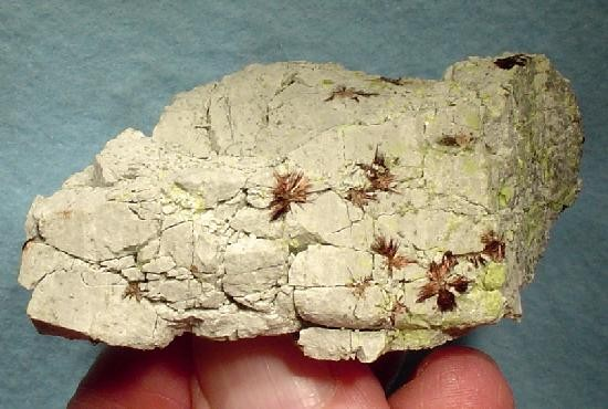 Hewettite Locality: Gold Quarry Mine (Maggie claims), Maggie Creek District, Eureka County, Nevada, USA (Locality at ) Size: 6.1 x 5.9 x 2.7 cm. Hewettite is a rare calcium vanadate hydrate. This fine specimen from the Gold Quarry Mine of Nevada is richly covered with radial, divergent sprays of lustrous, brassy to chocolate-brown hewettite needles. The largest spray is 9 mm across and the blocky, brecciated limestone matrix is nicely accented with drusy, yellow carbonate-fluorapatite.